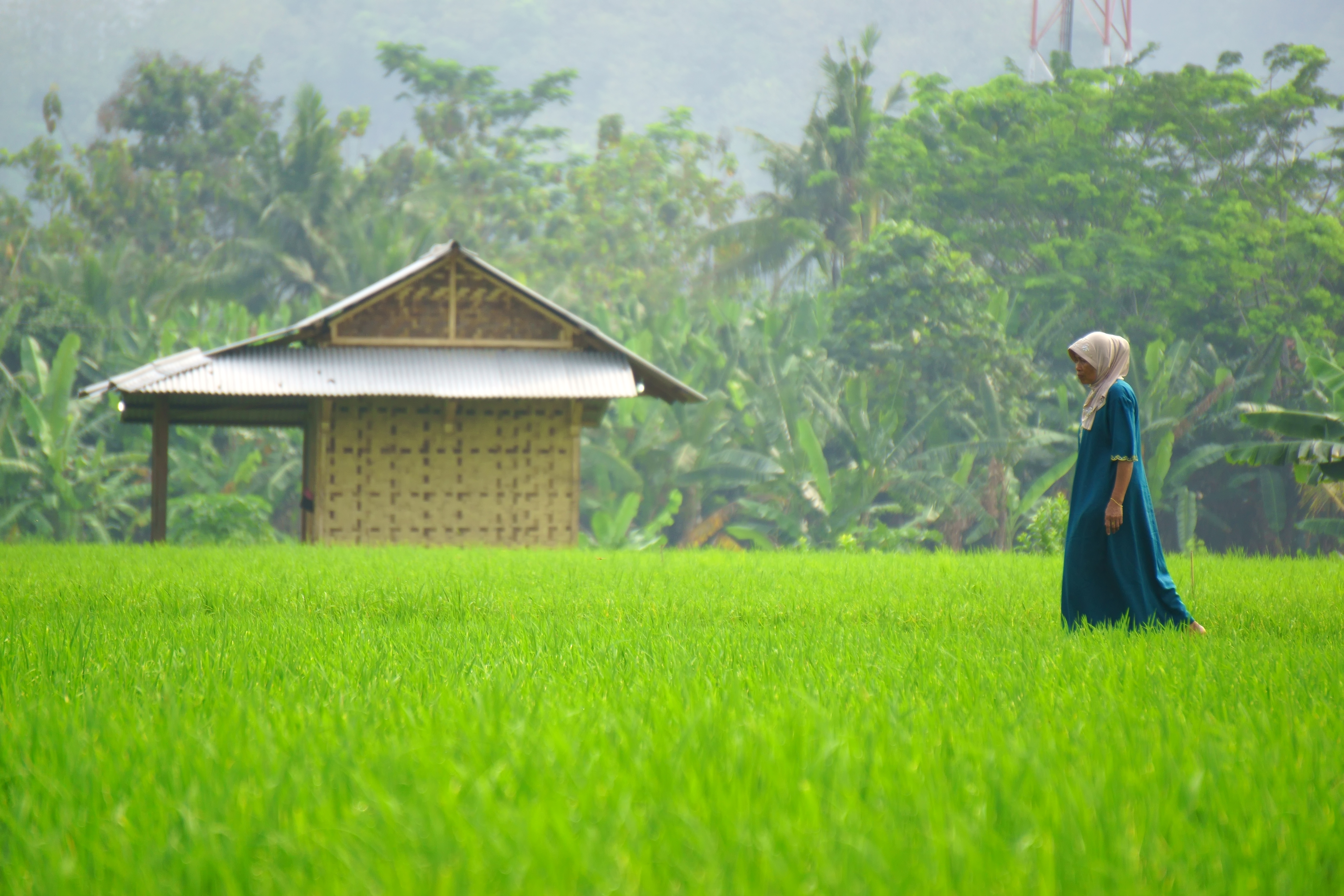 "Composition" // Shot on 7 Nov 2014 @ Sawarna, Banten Province, Indonesia.